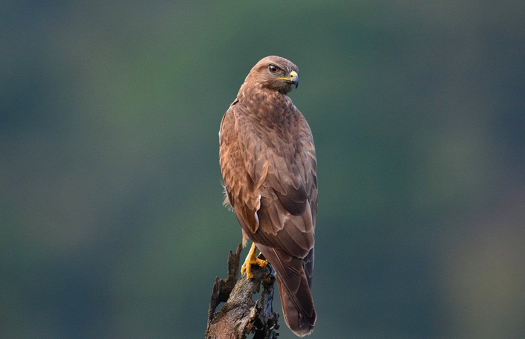 Himalayan Buzzard Buteo burmanicus, Western Ghats, South India